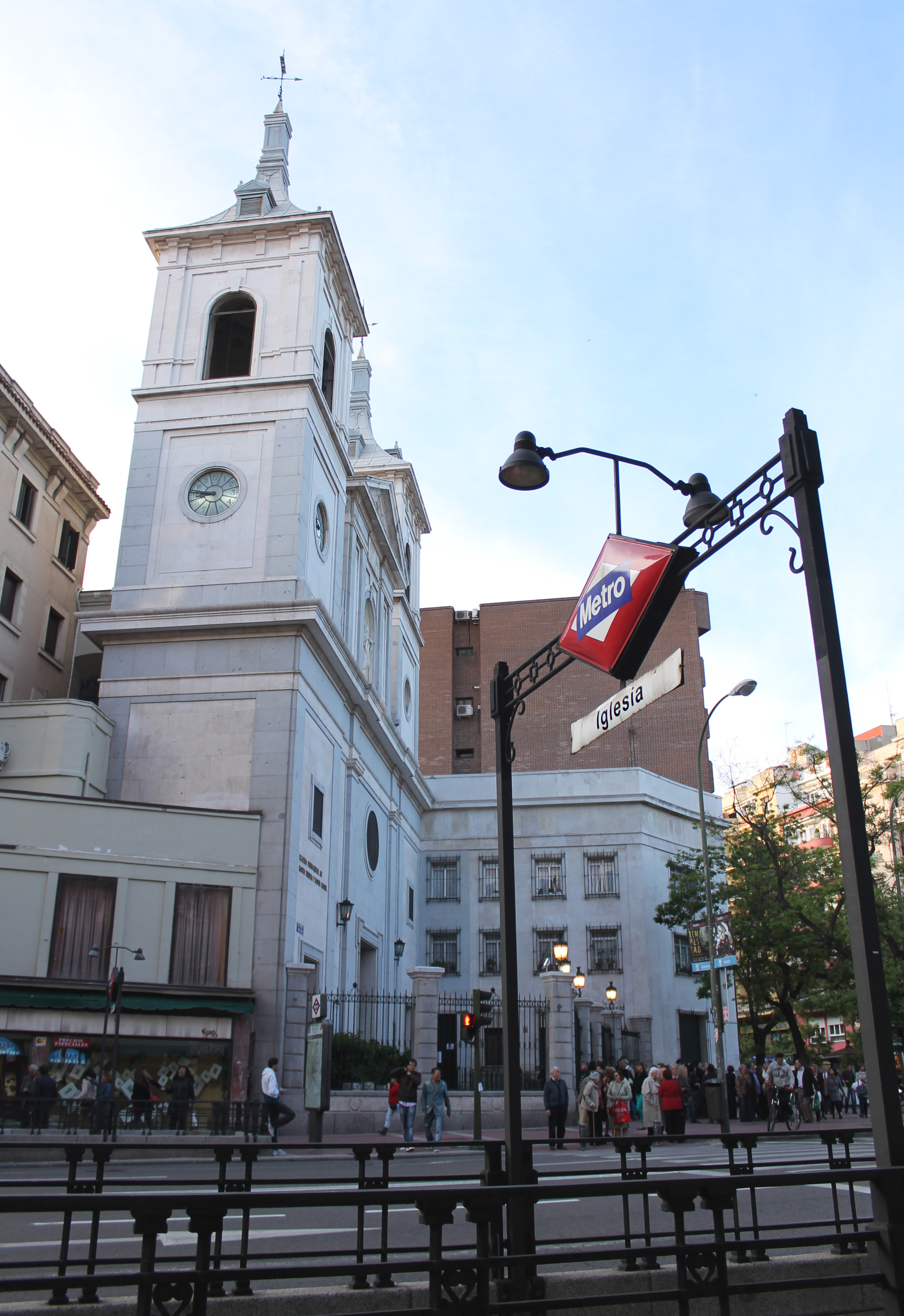 Entrance of Iglesia metro station in Chamberí district in Madrid (Spain).